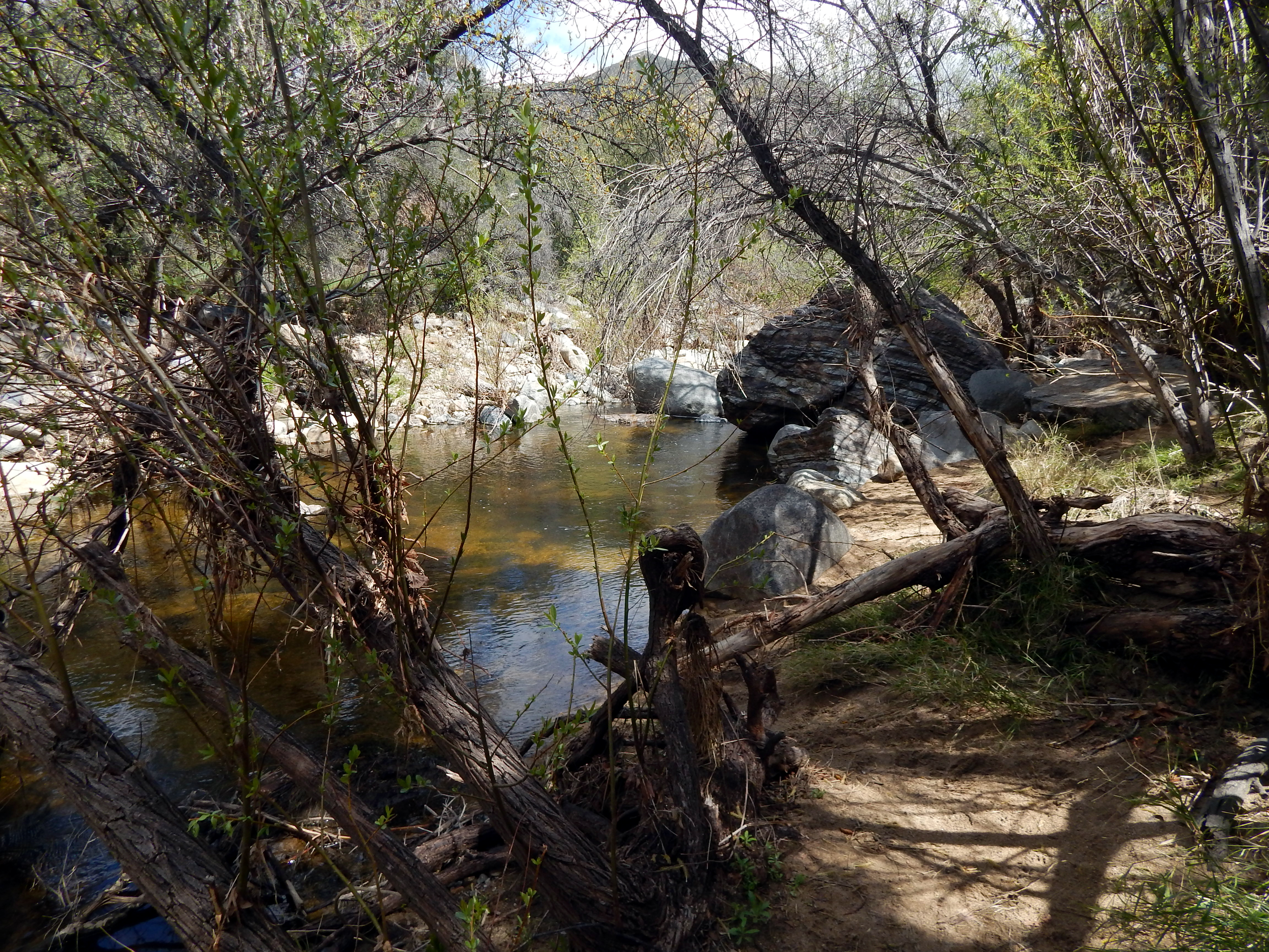 San Mateo Creek at intersection with Tenaja Truck Trail near the Tenaja Falls Trailhead, Cleveland National Forest, California, USA